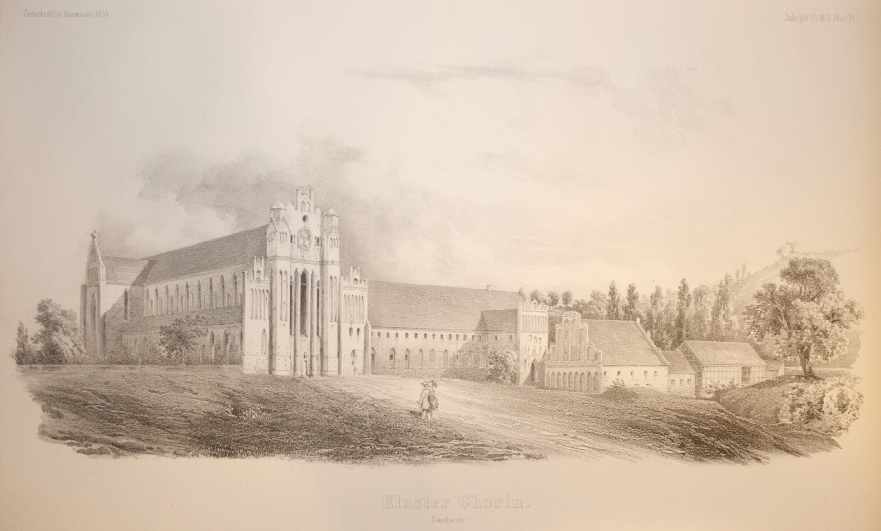 Kloster Chorin - view from the North, 1854)